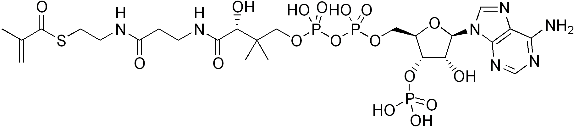 chemical structure of Methacrylyl-CoA